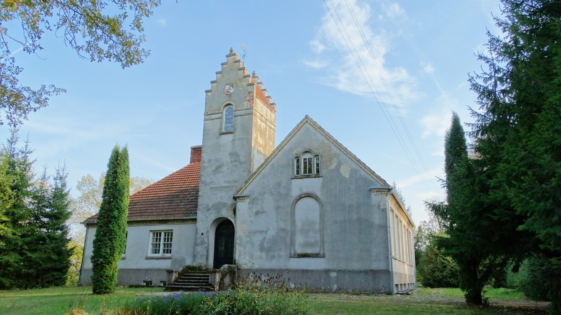 Former school, Kurnėnai, Alytus district, Lithuania